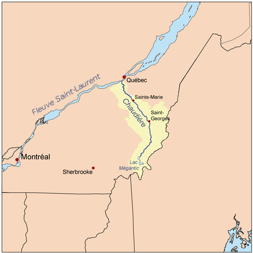 based on ,Saint Lawrence River in French.